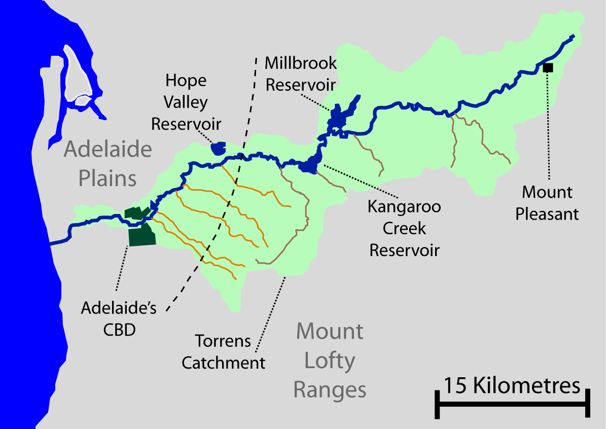 Self created map of the River Torrens catchment and major creeks. Data is from Surface Water Group (June 2003). Report DWLBC 20003/24, Surface Water Assessment of the Upper River Torrens Catchment (Figure 16). Adelaide: The Department of Water, Land and Biodiversity Conservation. Smith, Derek L.; Twidale C.R. (1987). An Historical account of flooding and related events in the torrens river system from first settlement to 1986, volume 1, 1836-1899, Adelaide: The engineering and water supply department. Originally uploaded by me to wikipedia then moved here